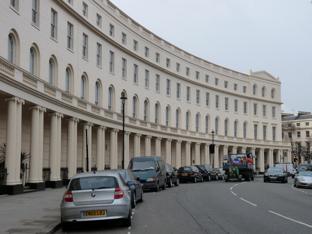 Park Crescent Part of the impressive crescent, at the southern end of Regent's Park.